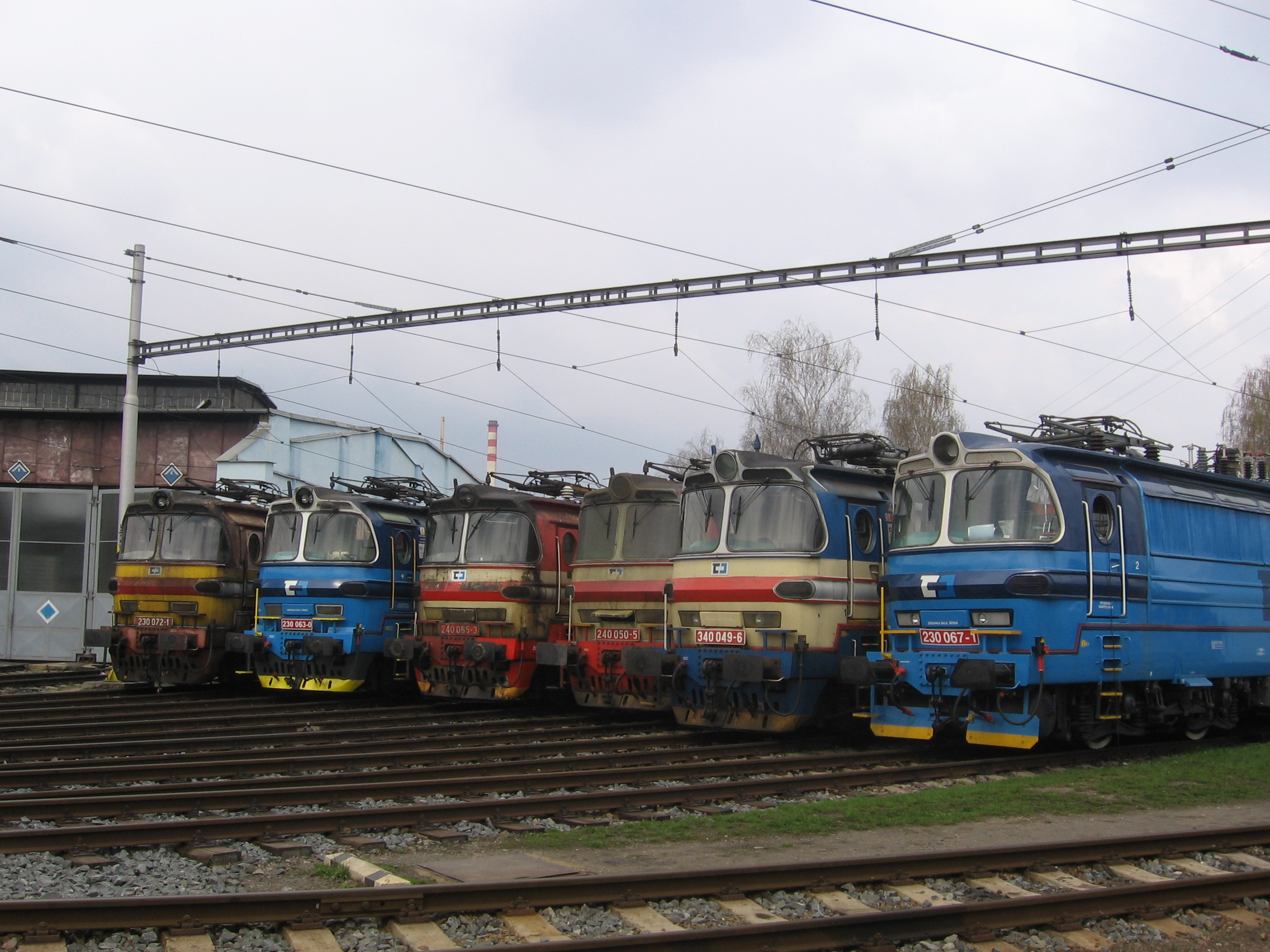 ČD Cargo classes 230, 240 and 340 in depot České Budějovice